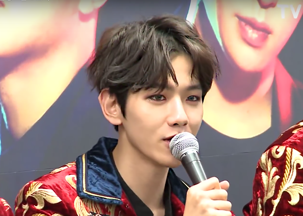 Baekhyun at Exo'rdium Dot Press Con 2017